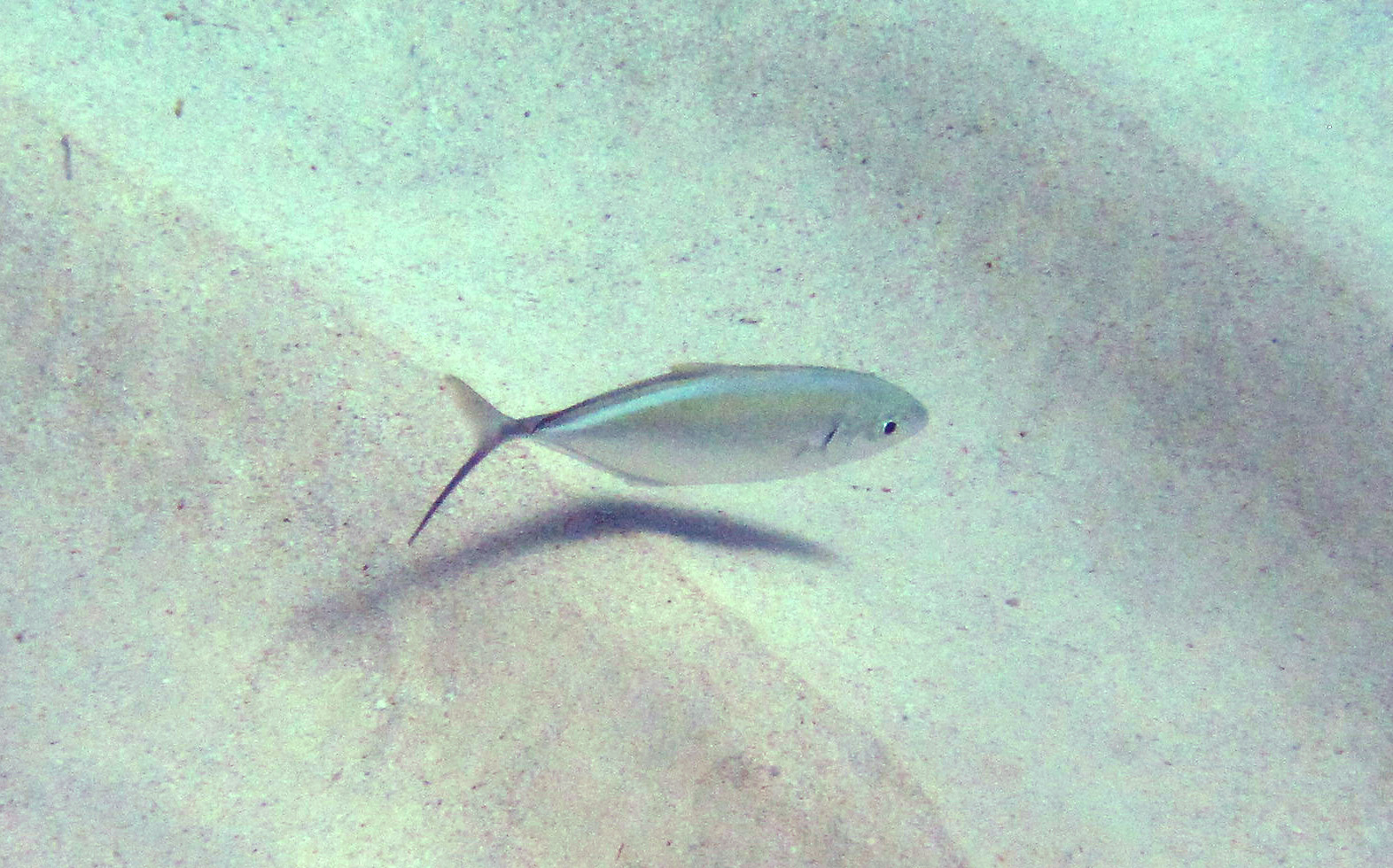 Caranx ruber (Bloch, 1793) - bar jack over shallow subtidal, symmetrically rippled, biogenic aragonite sand seafloor between closely-spaced patch reefs. Classification: Animalia, Chordata, Vertebrata, Actinopterygii, Perciformes, Carangidae Locality: western French Bay, southwestern San Salvador Island, eastern Bahamas